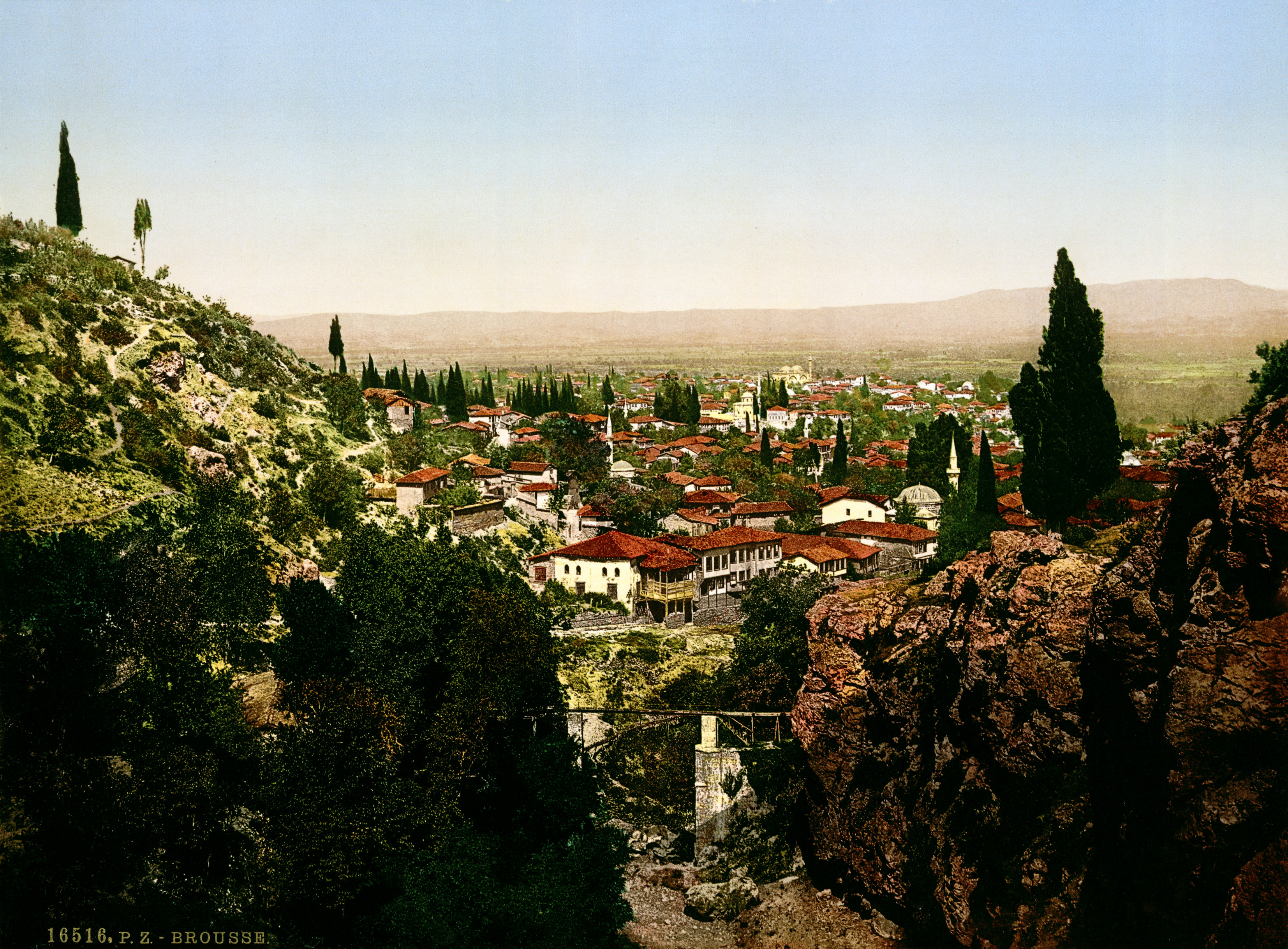 Photochrom print of Bursa, Turkey